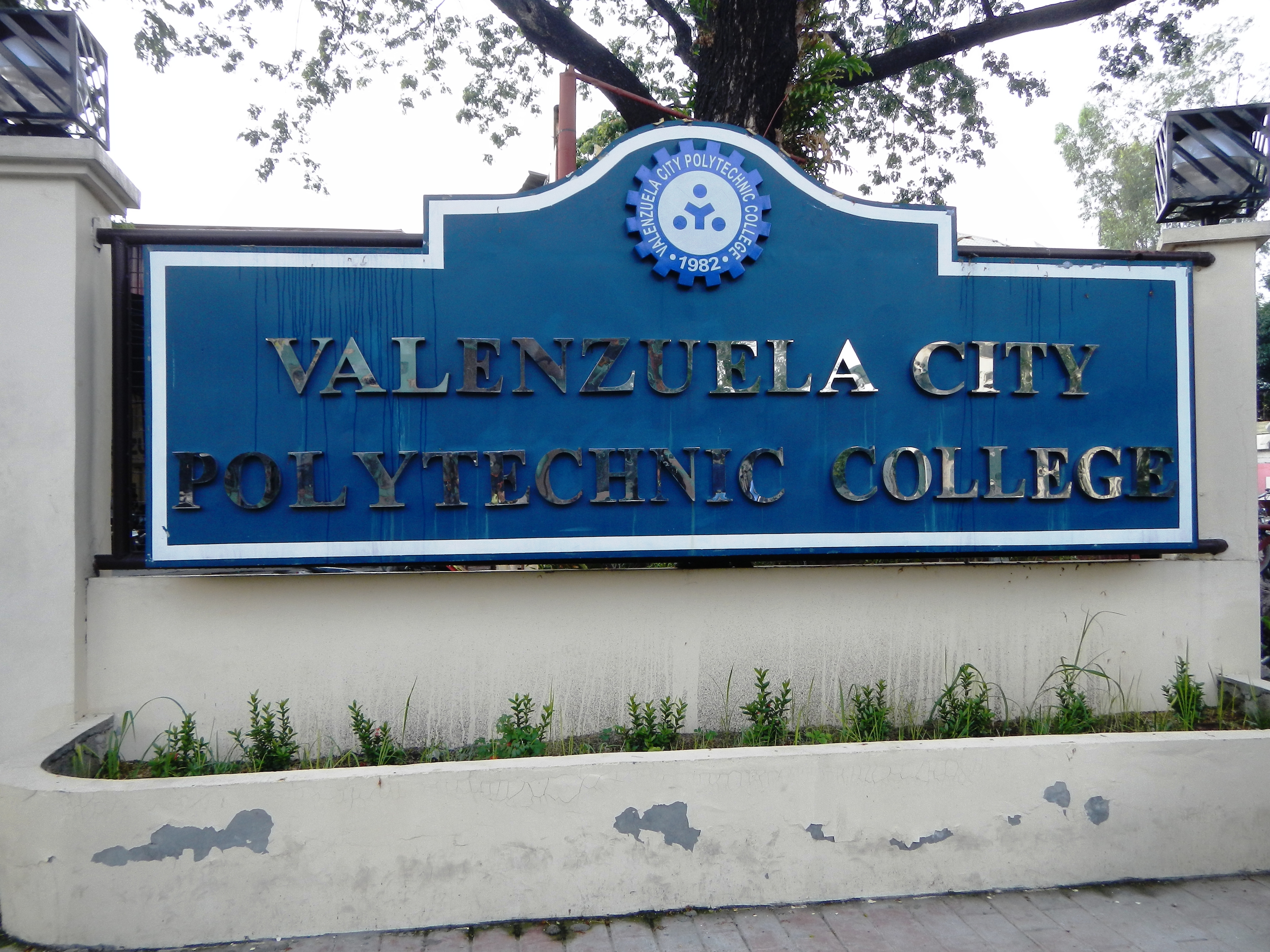 Valenzuela City Polytechnic College in Barangay Parada, Valenzuela City, Metro Manila.